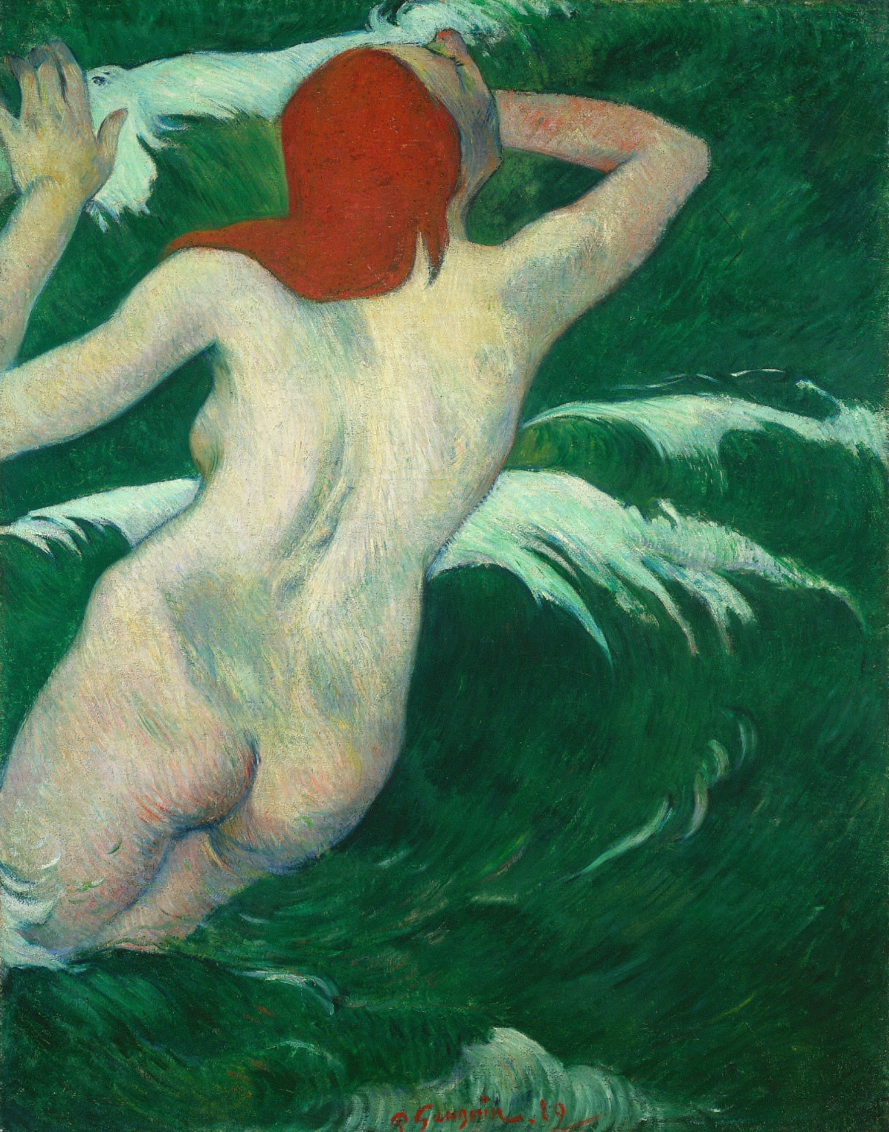 Compare with The Woman in the Waves by Gustave Courbet